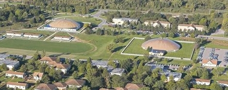 Oblique aerial photograph of the campus of Maharishi University of Management, showing the Golden Domes.